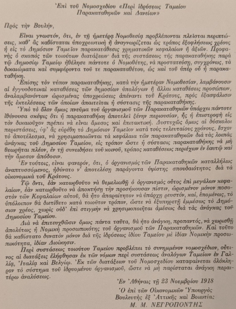 Letter to Greek parliament from minister of Finance Miltiades Negropontes, on the formation of the Consignment Deposit And Loans Fund - 1918